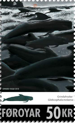 Stamp FO 685 of the Faroe Islands: Long-finned Pilot Whale